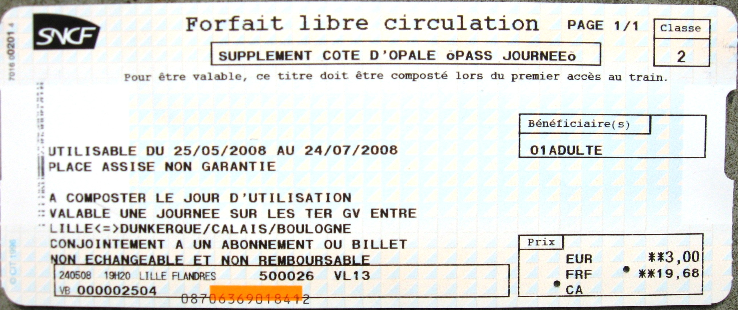 This is the one day supplement off 3€, needed to travel on the TER GV. These are TGV's used for a regional service between Lille and Calais Boulogne (or Lille Dunkerque) on the highspeed line.